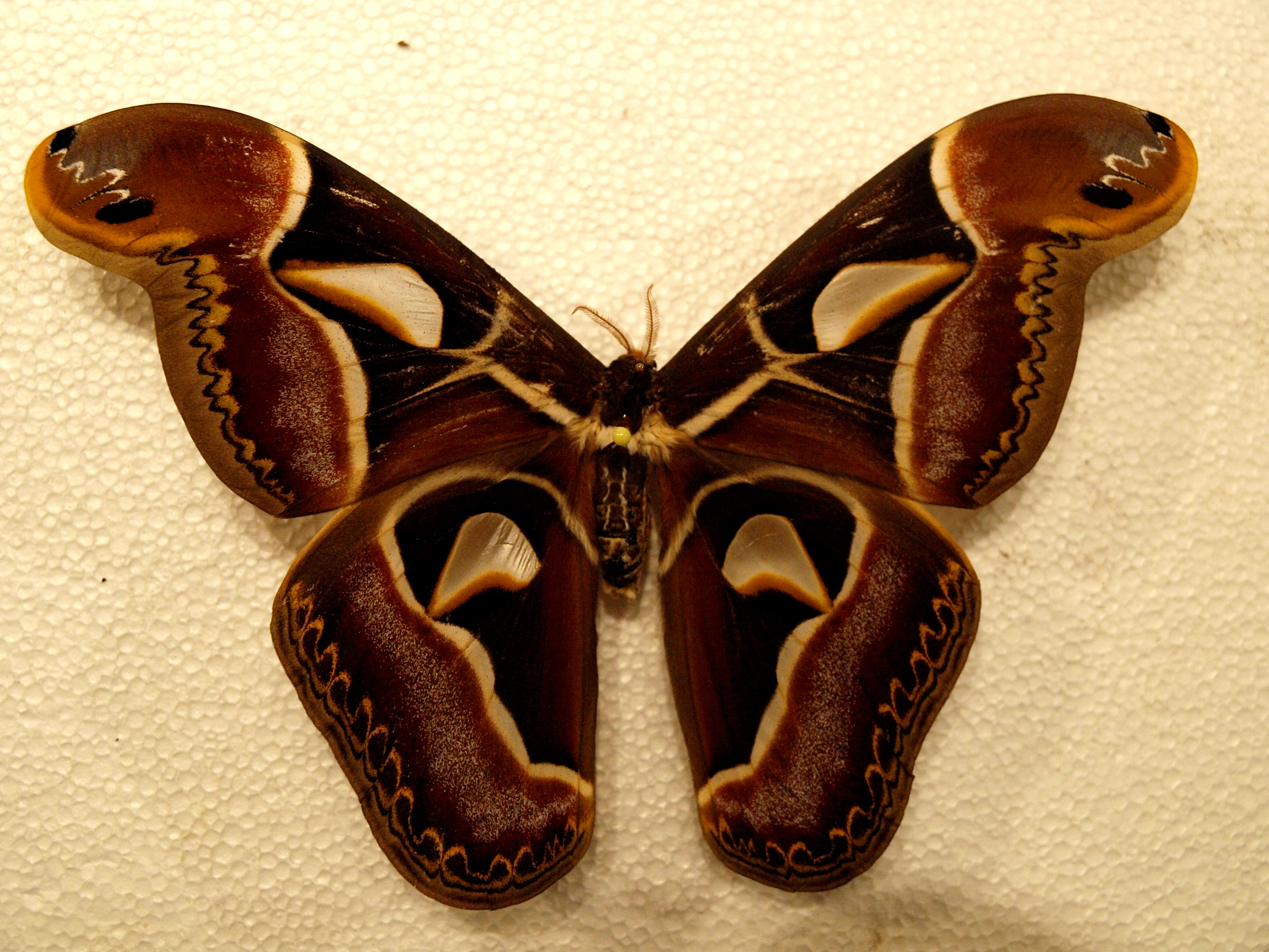 Female Archaeoattacus edwardsii (Saturniidae) from India. Ex own collection.